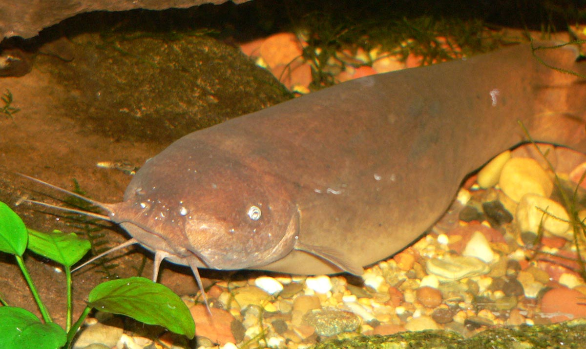 Photo of Malapterurus electricus (electric catfish) at the Steinhart Aquarium in San Francisco